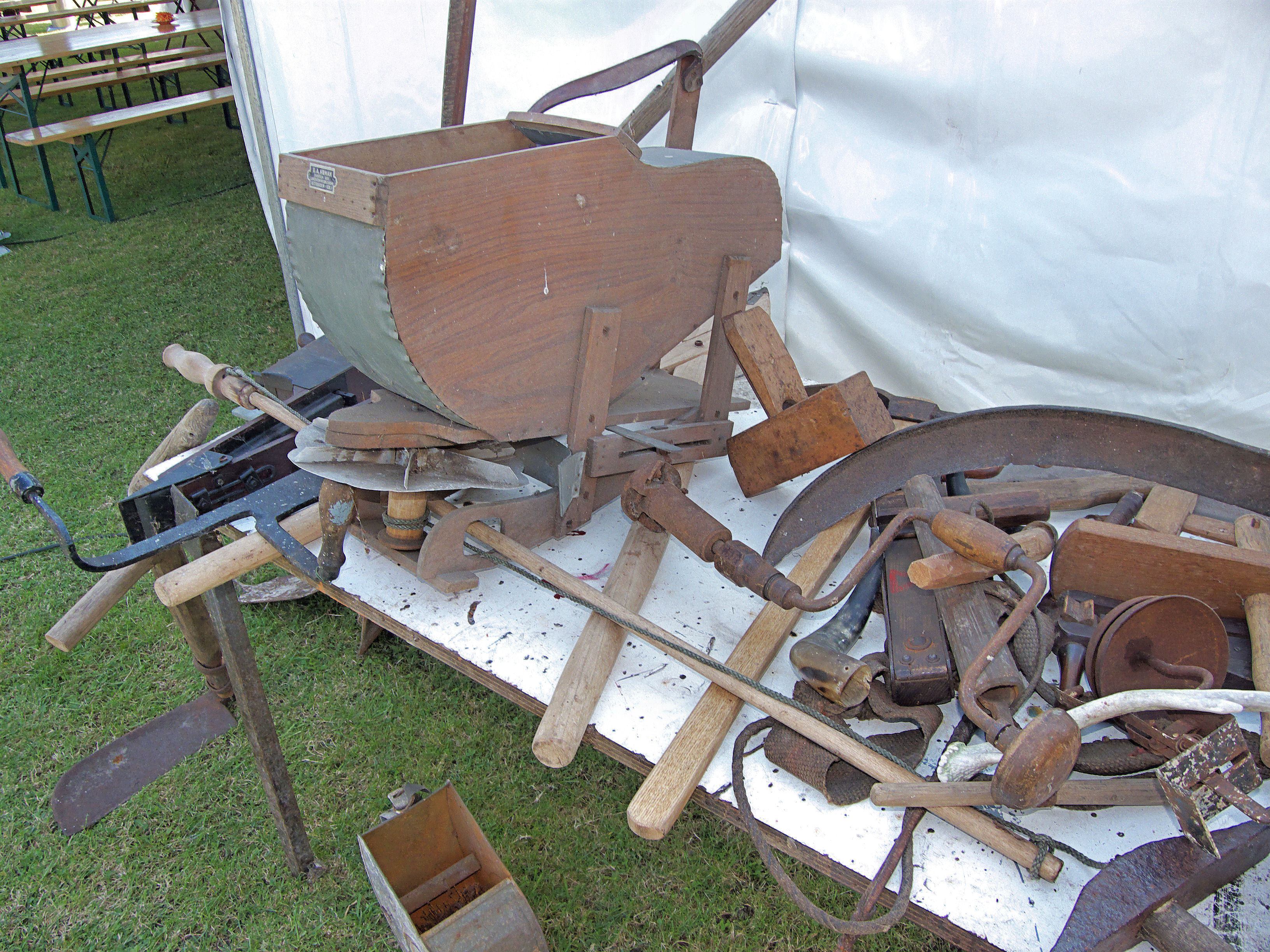 Seed fiddle, hand driven seed drill